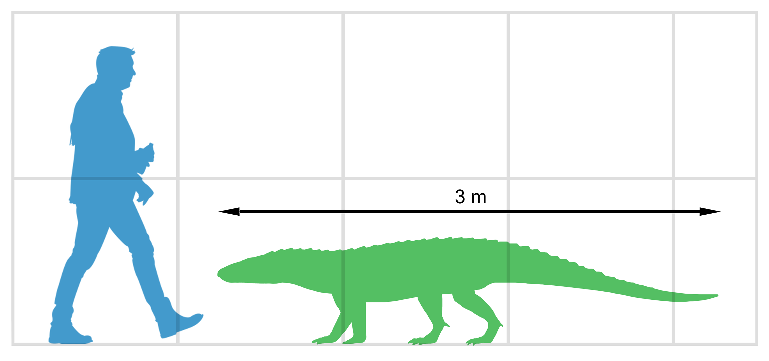 Size of Nundasuchus compared to human